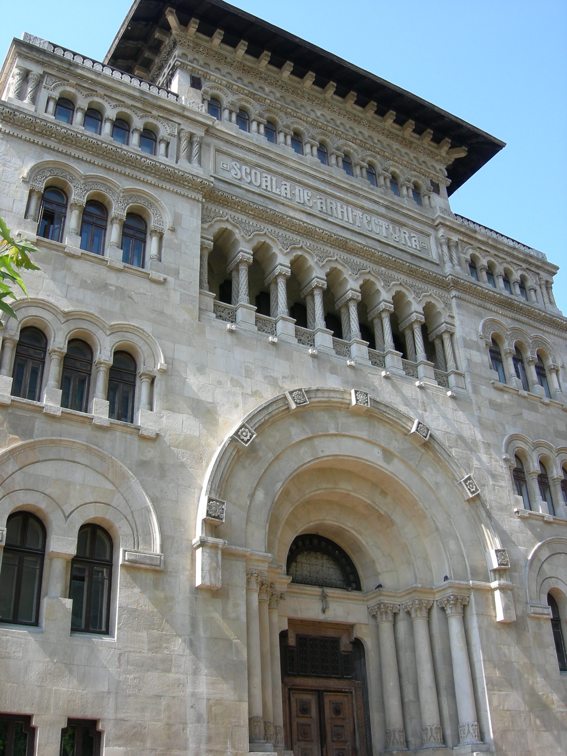 Architecture Faculty, University of Bucharest, Romania.